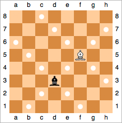 The so called light-square bishops can only move on the light squares of a chessboard